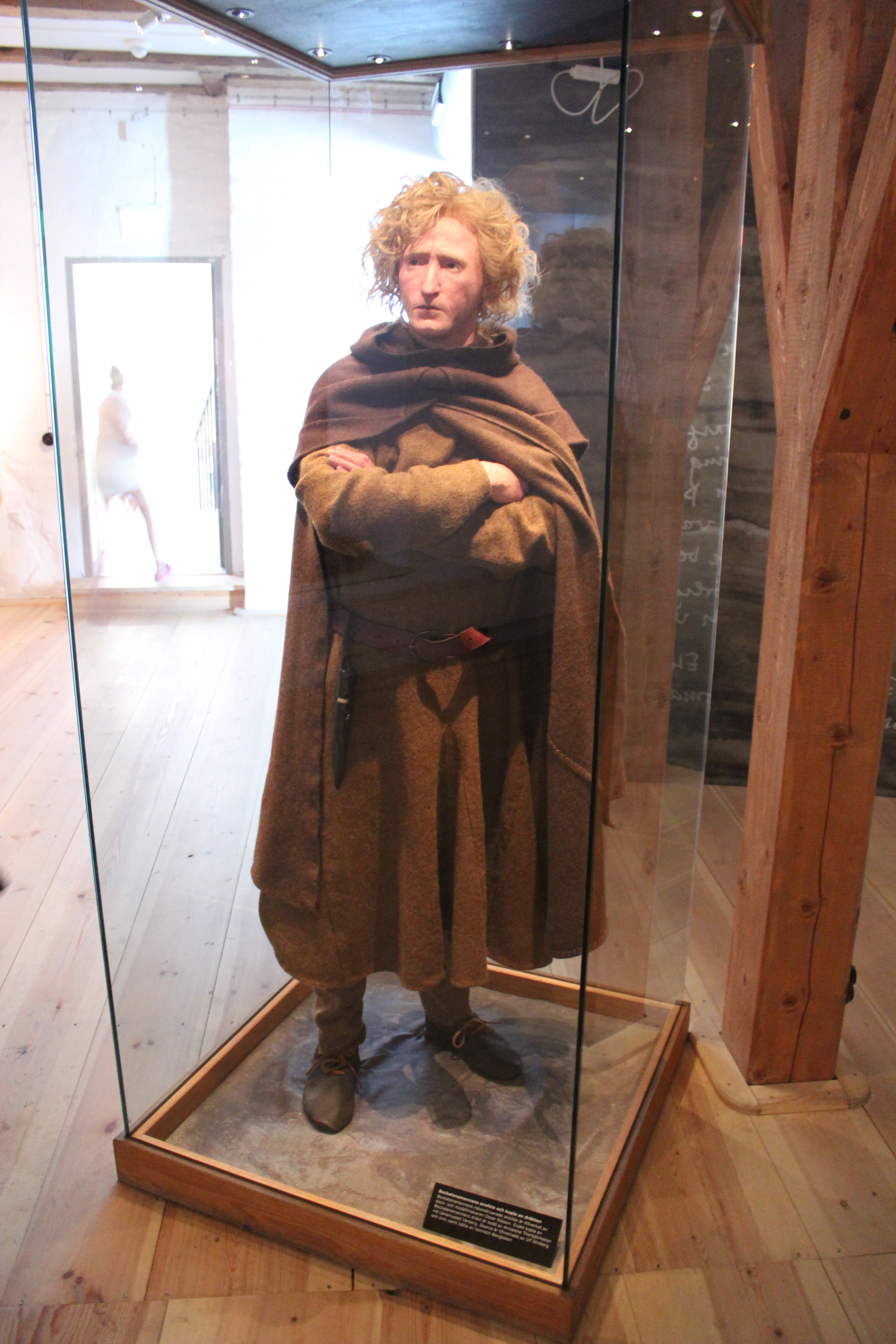 Reconstruction of Bockstensmannen